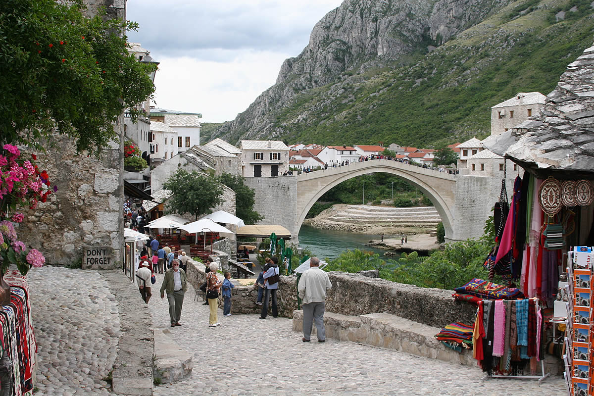 Street Kujundžiluk in old part of Mostar